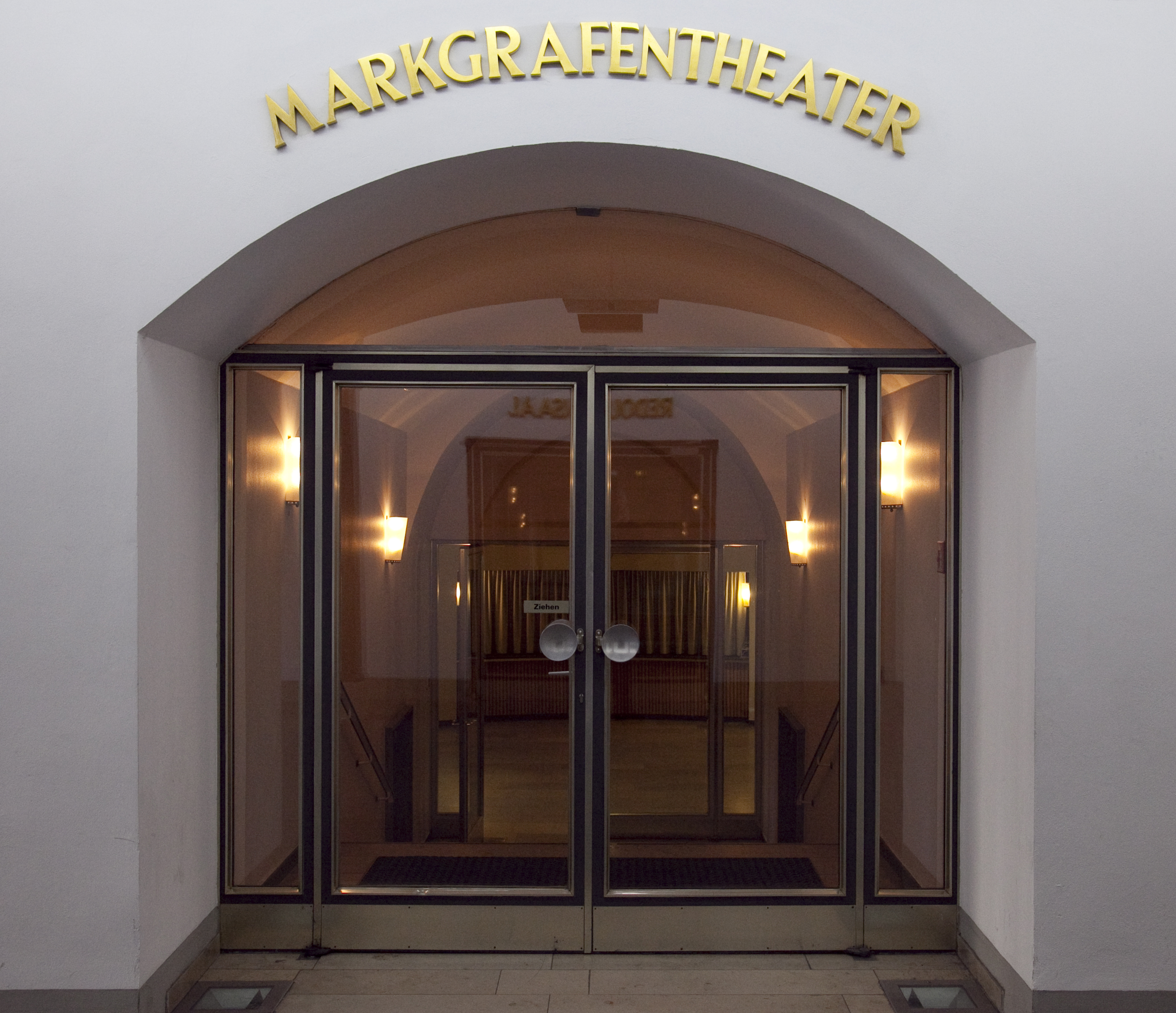 Der Eingang des Markgrafentheaters